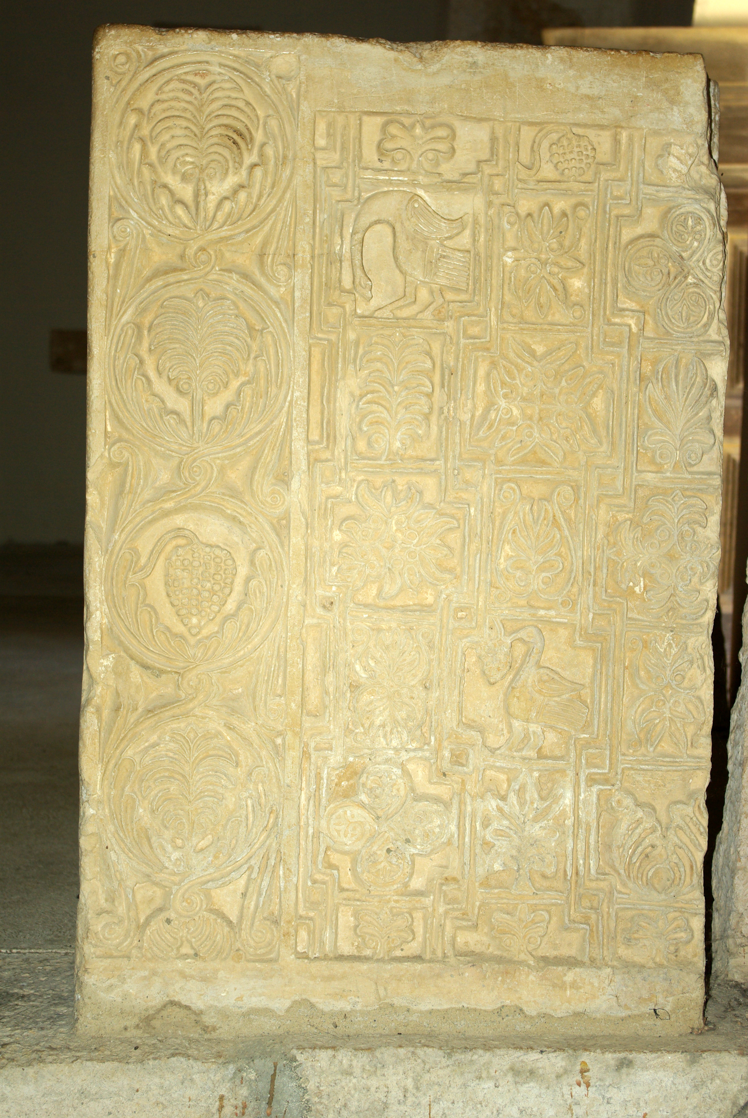 Monastery of San Miguel de Escalada, Gradefes (León, Spain).